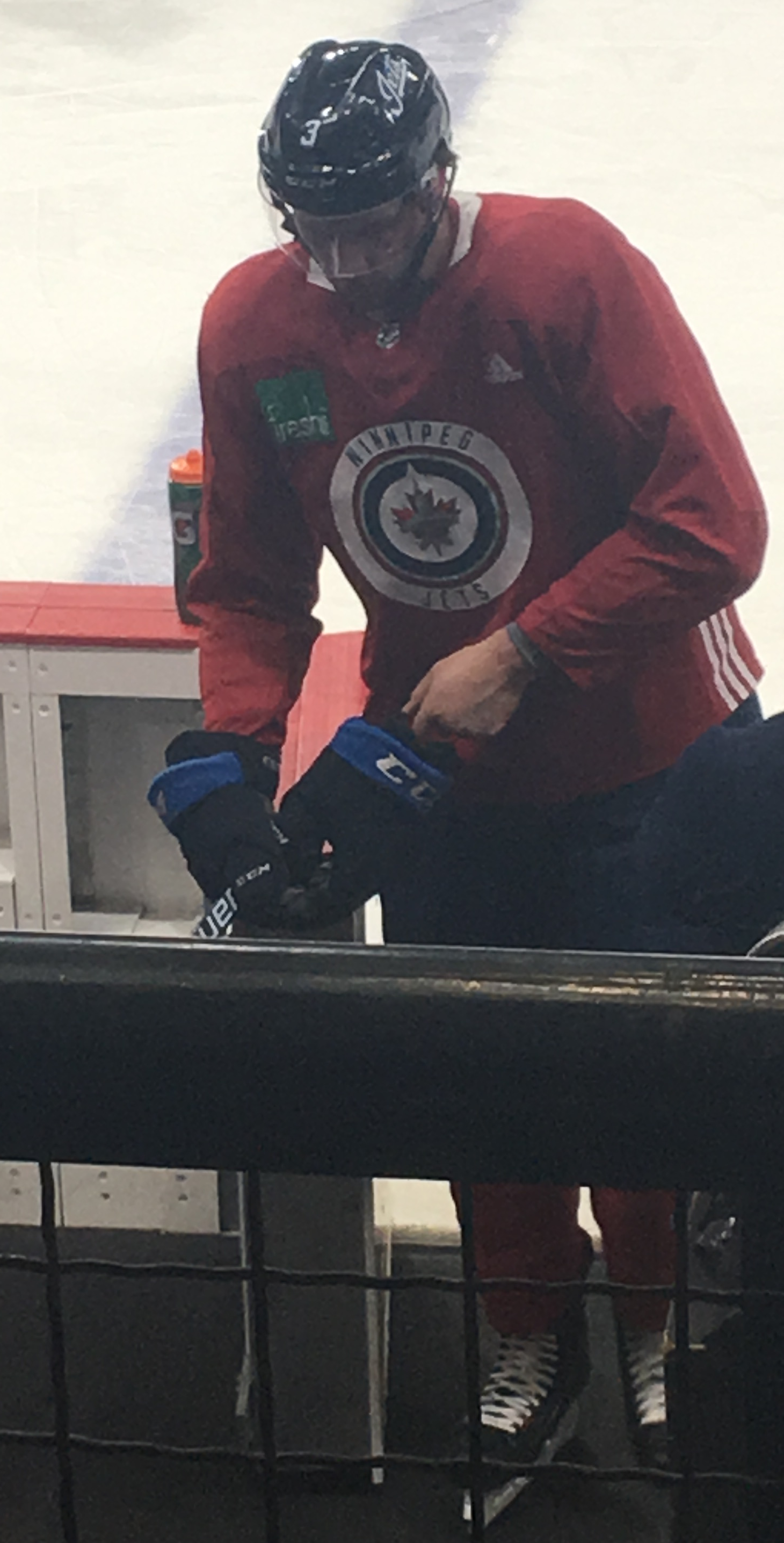 Poolman at a Winnipeg Jets morning practice in 2020